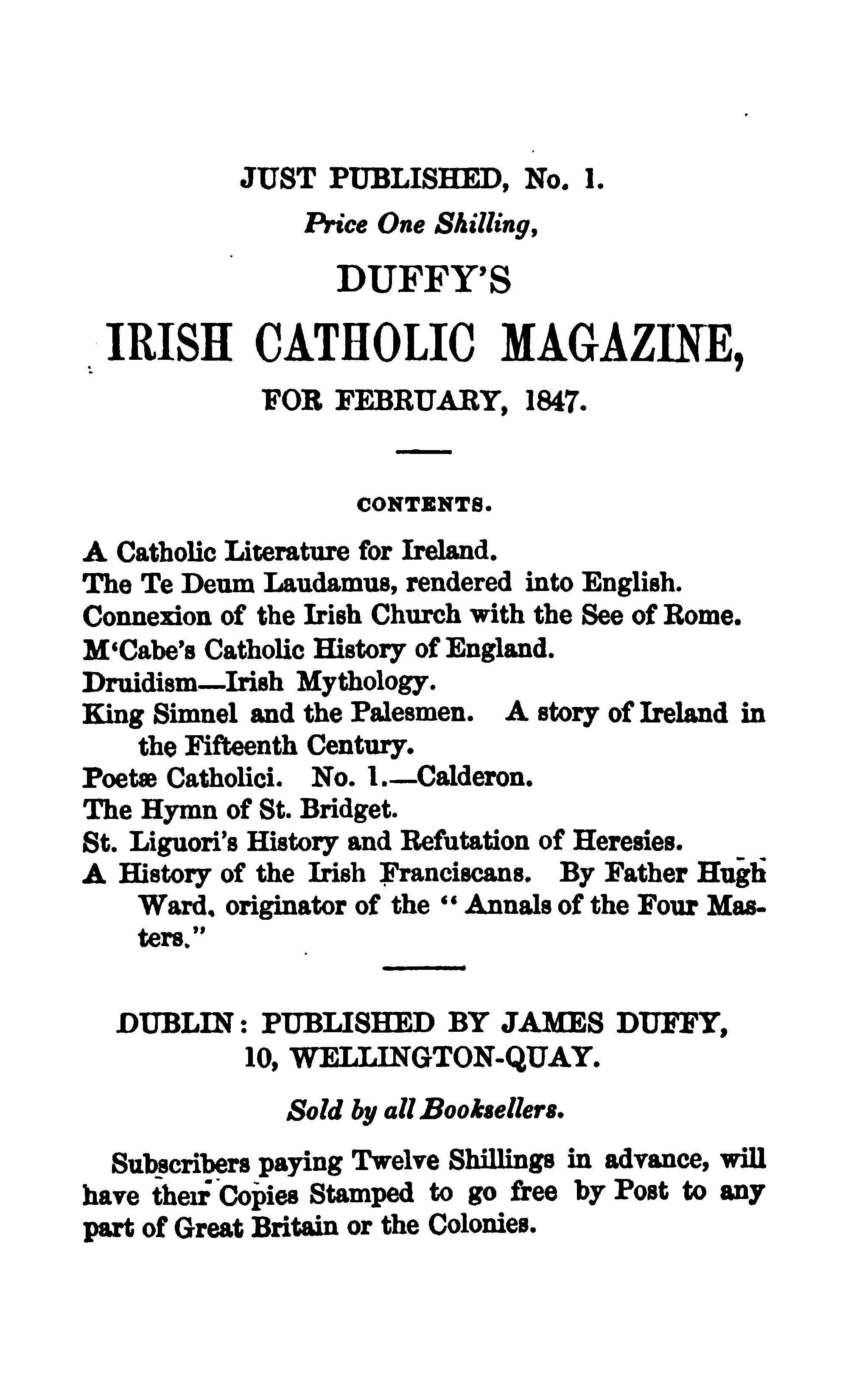 Announcement of the first issue of Duffy's Irish Catholic Magazine at the end of the book of Dominicus O'Daly: The Geraldines, earls of Desmond, and the persecution of the Irish Catholics, translated from Latin to English by C. P. Meehan, and published by James Duffy in 1847.